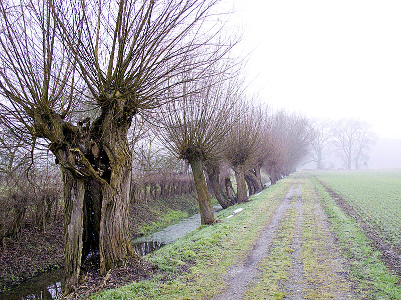 Europe, Germany, North Rhine Westphalia, Rhineland Lower Rhine, Nature reserve Huelser Berg, Huelser Bruch. Typical pollard willows along a coutry road in Krefeld-Huels